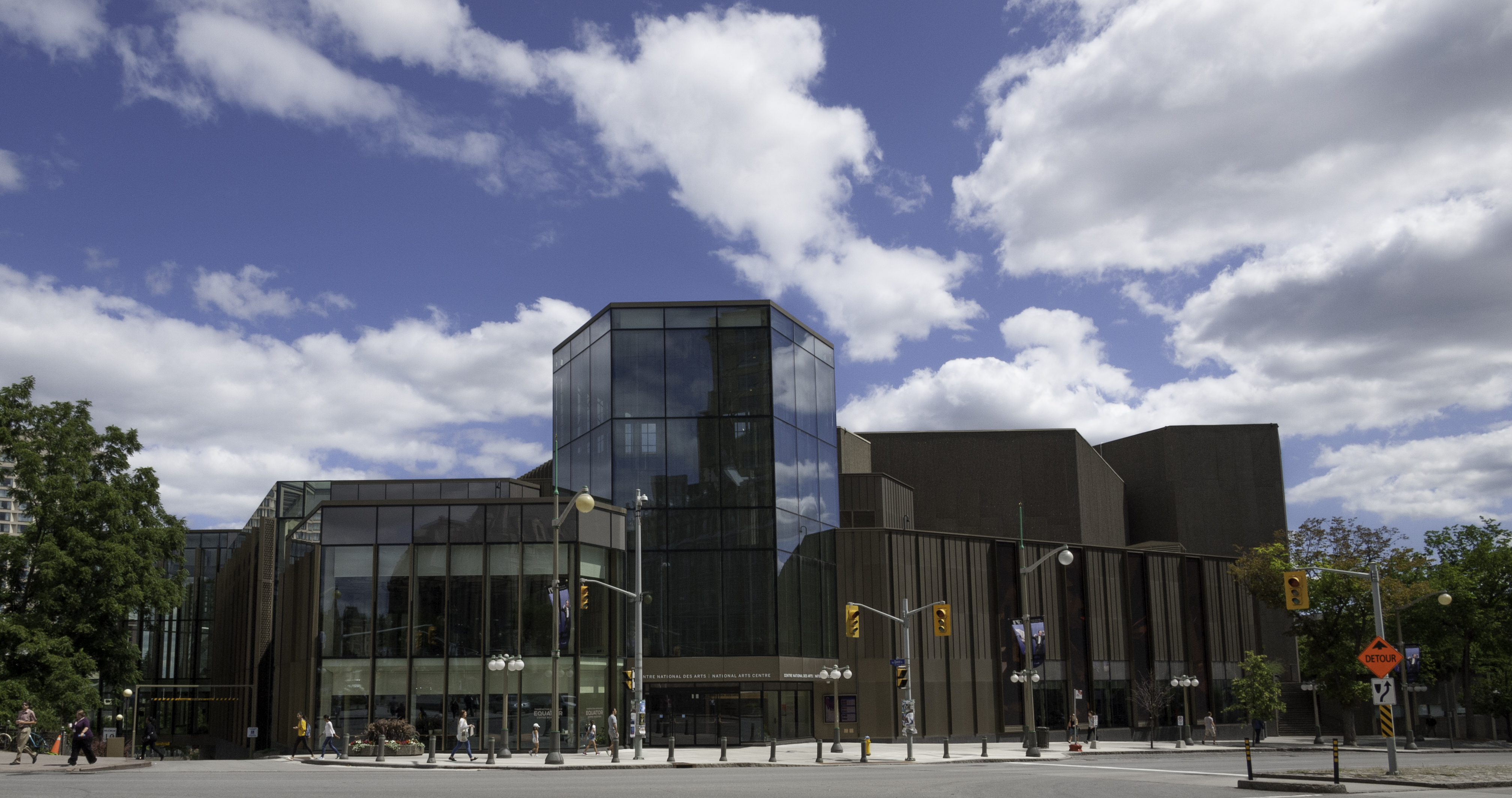 New entrance and facade of Canada's National Arts Centre in Ottawa, Ontario, Canada